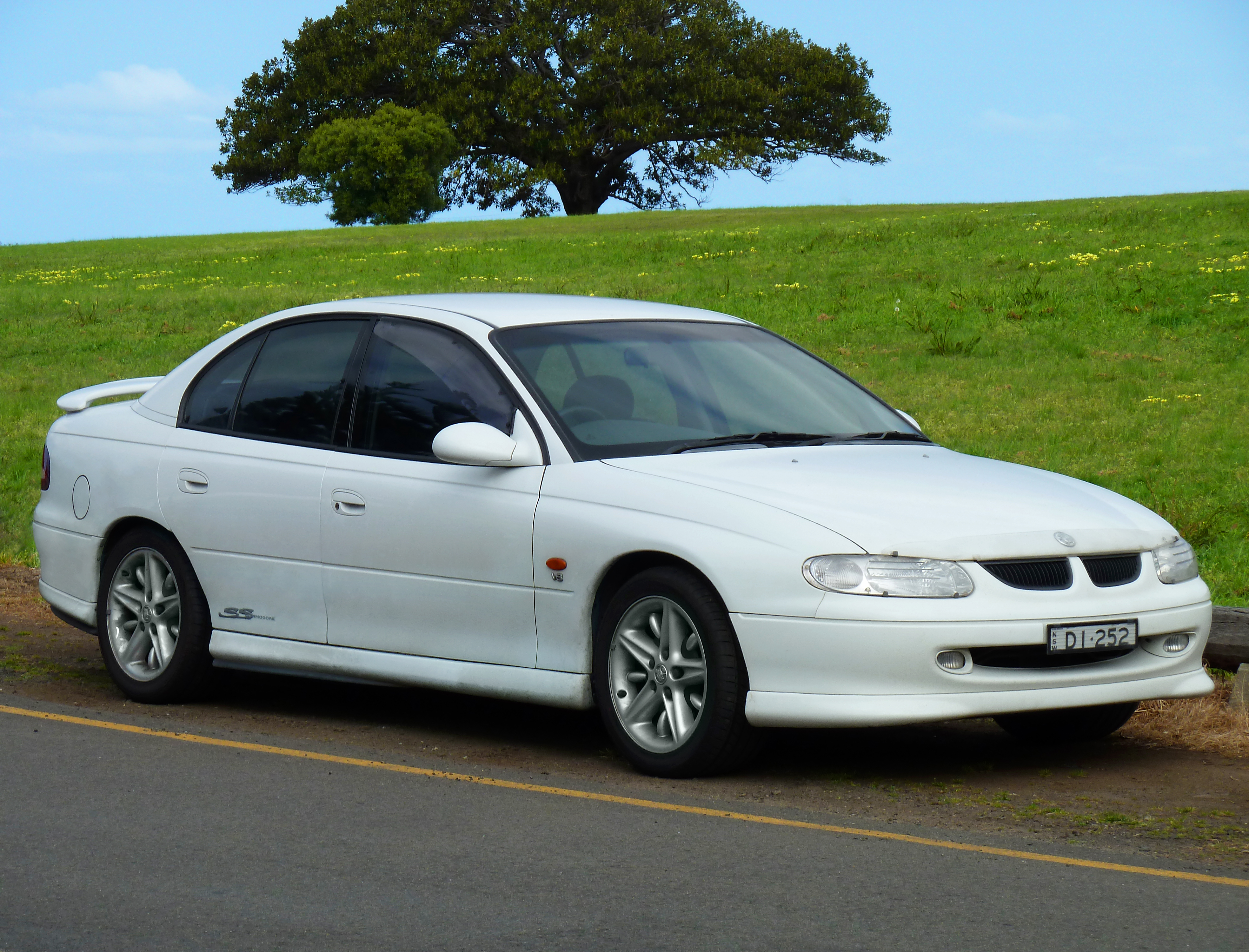 1999 Holden Commodore (VT) SS sedan. Photographed in Sans Souci, New South Wales, Australia.